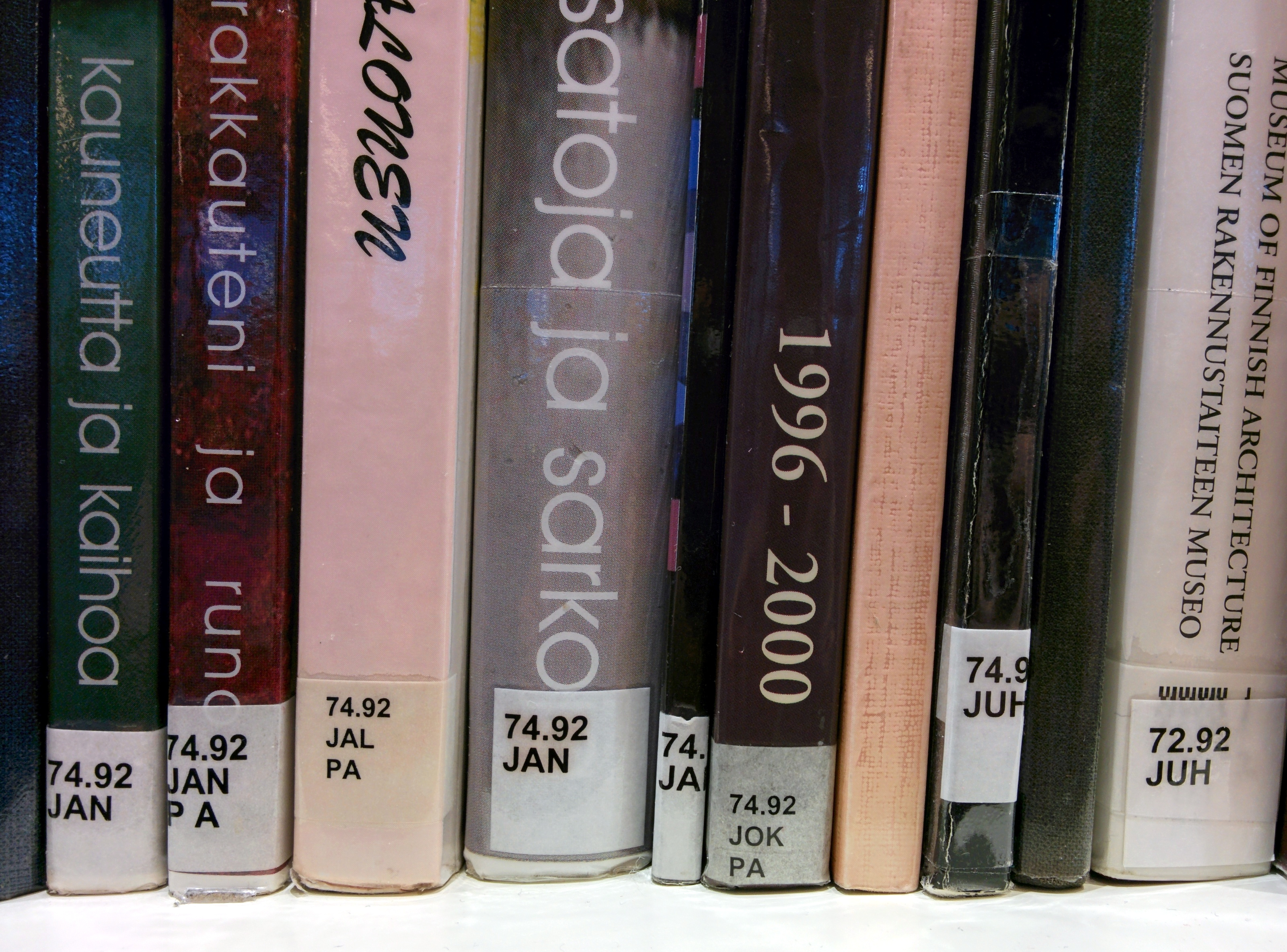 Books labeled with YKL (yleisten kirjastojen luokitusjärjestelmä), a variant of the Dewey Decimal System for Finnish public libraries.